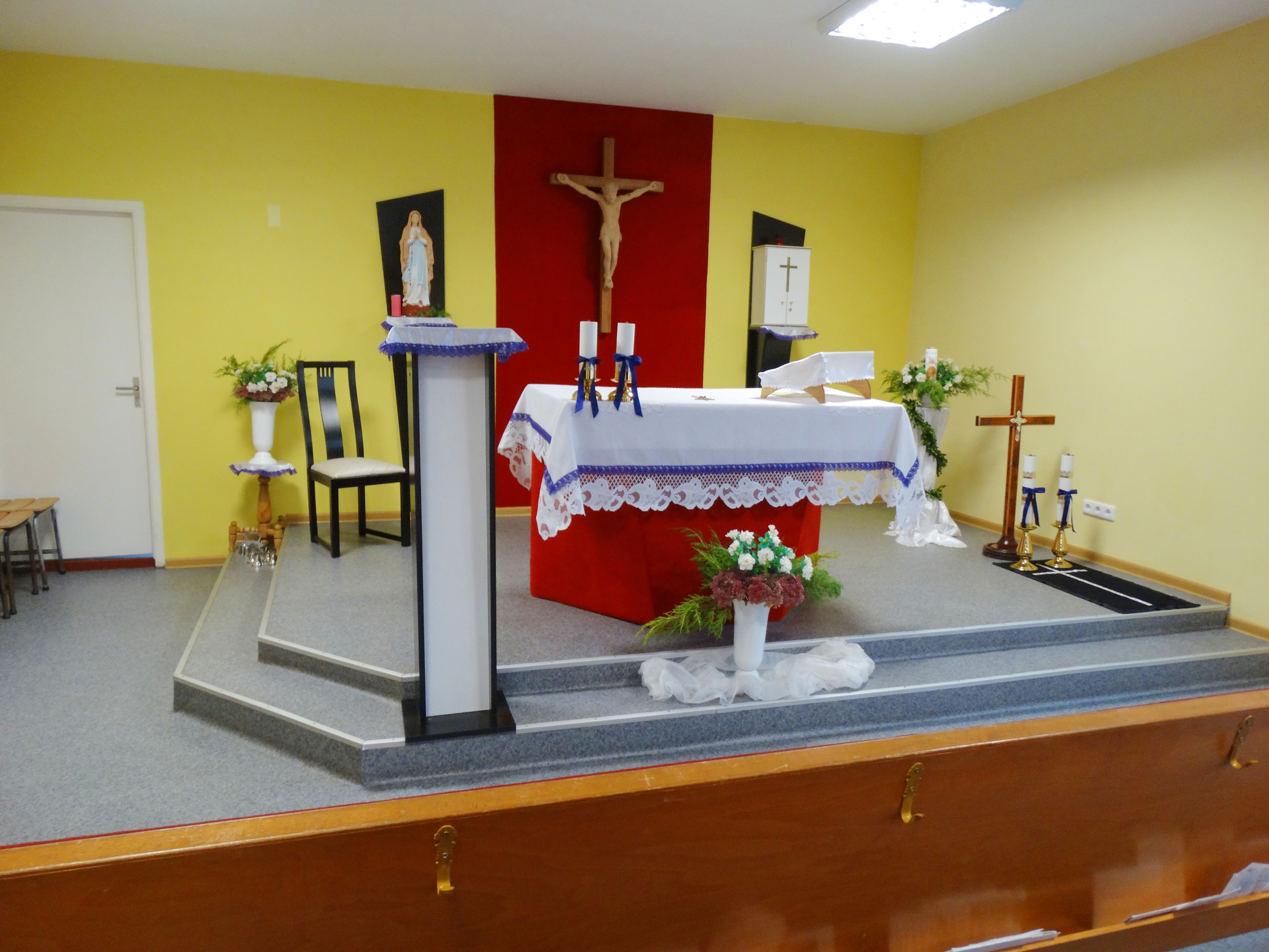 Catholic chapel, Usėnai, Šilutė district, Lithuania